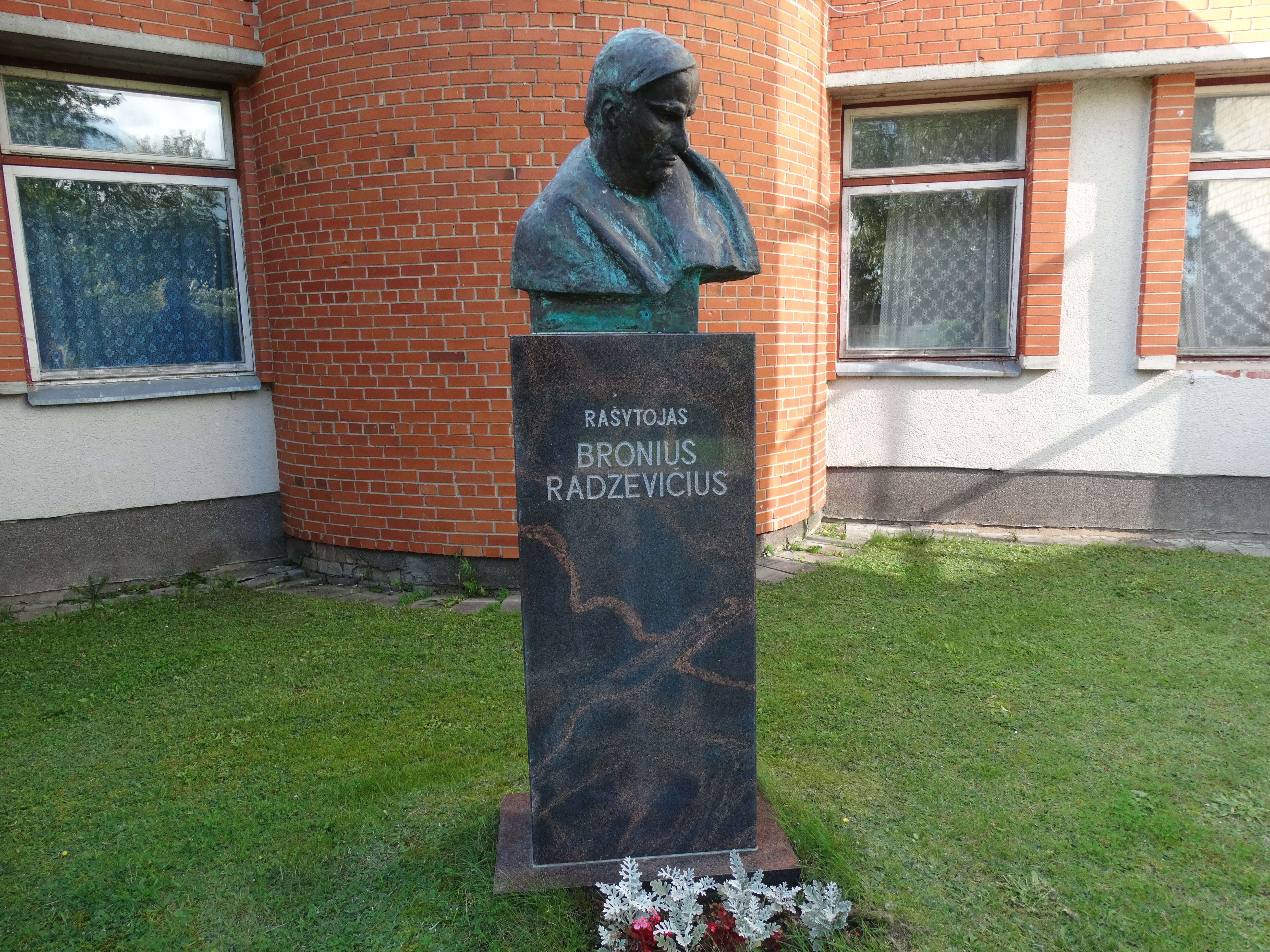 B. Radzevičius, Vyžuonos, Utena district, Lithuania